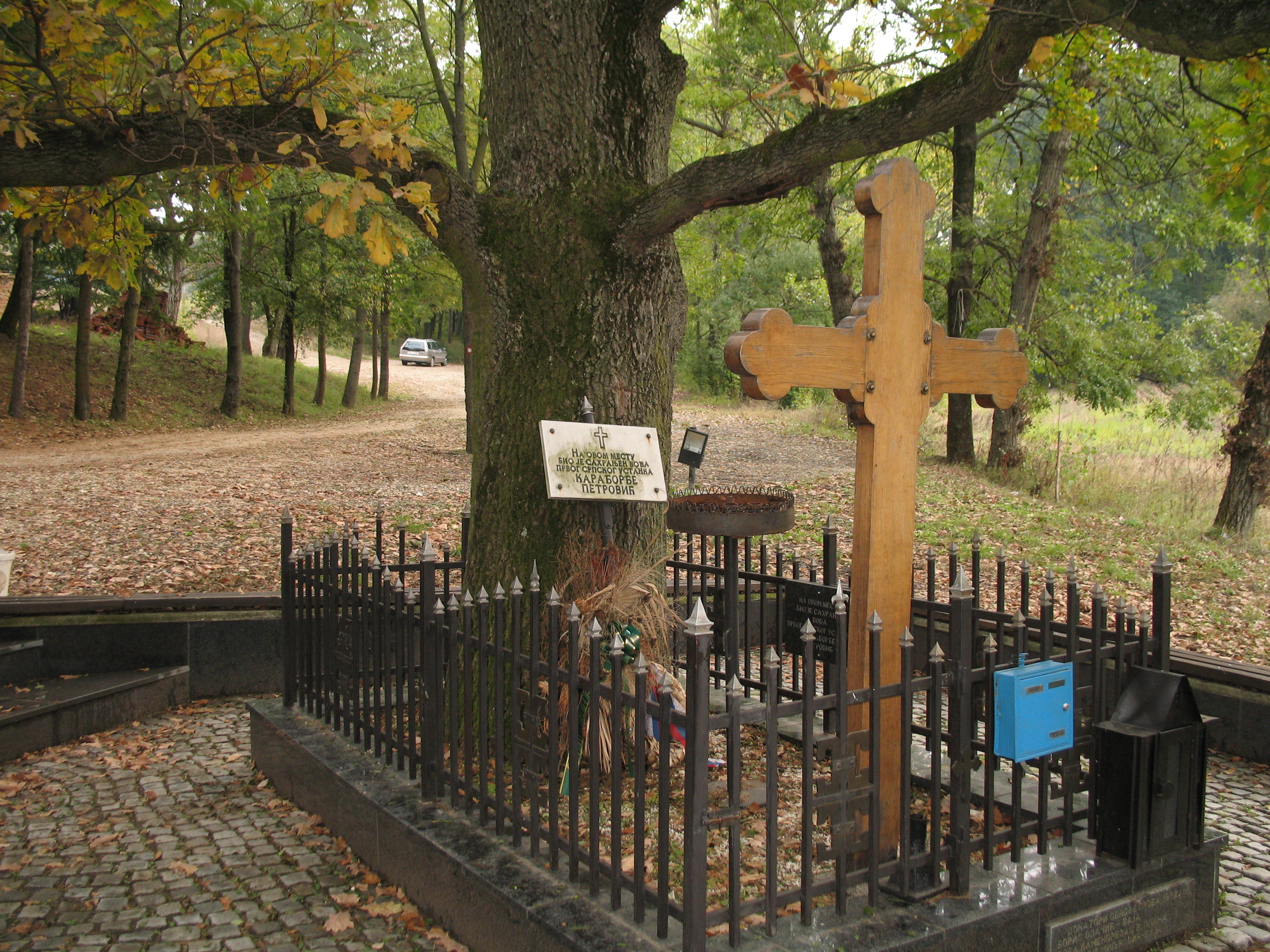 Former grave of Vožd Karađorđe